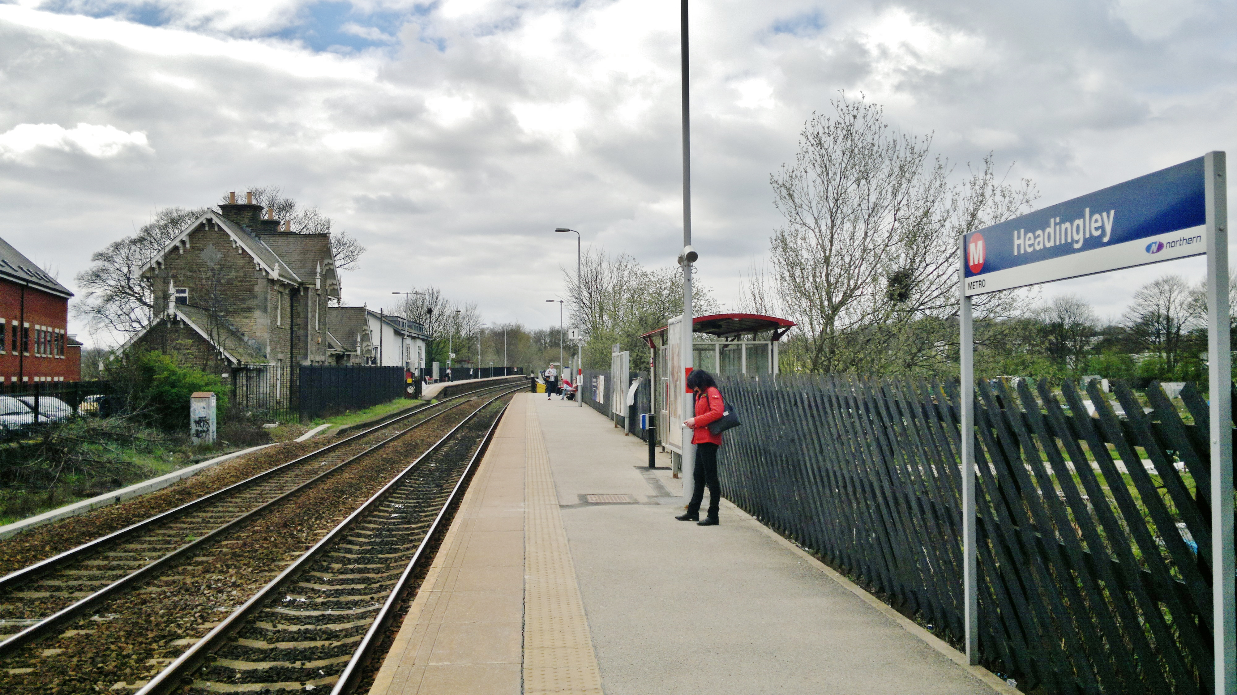 Headingley railway station, Headingley, Leeds, West Yorkshire. Taken by Geograph on Thursday the 10th of April 2014.